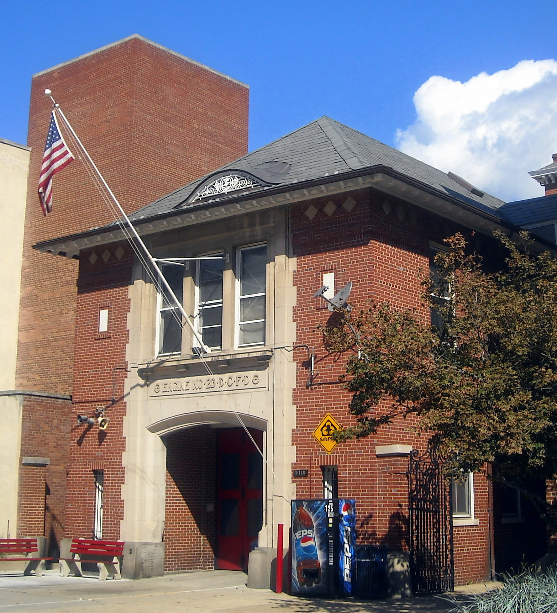 Engine Company #23 (also known as the Foggy Bottom Firehouse) located at 2119 G Street, NW in the Foggy Bottom neighborhood of Washington, D.C. The Renaissance building was designed by the architectural firm Hornblower & Marshall in 1910. It was placed on the National Register of Historic Places in 2007.